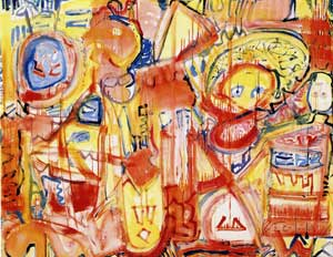 Painting by Adolf Bierbrauer, "The desperate search for the inner face", somnambulic work, acrylic on canvass, 160 cm x 200 cm, 1999